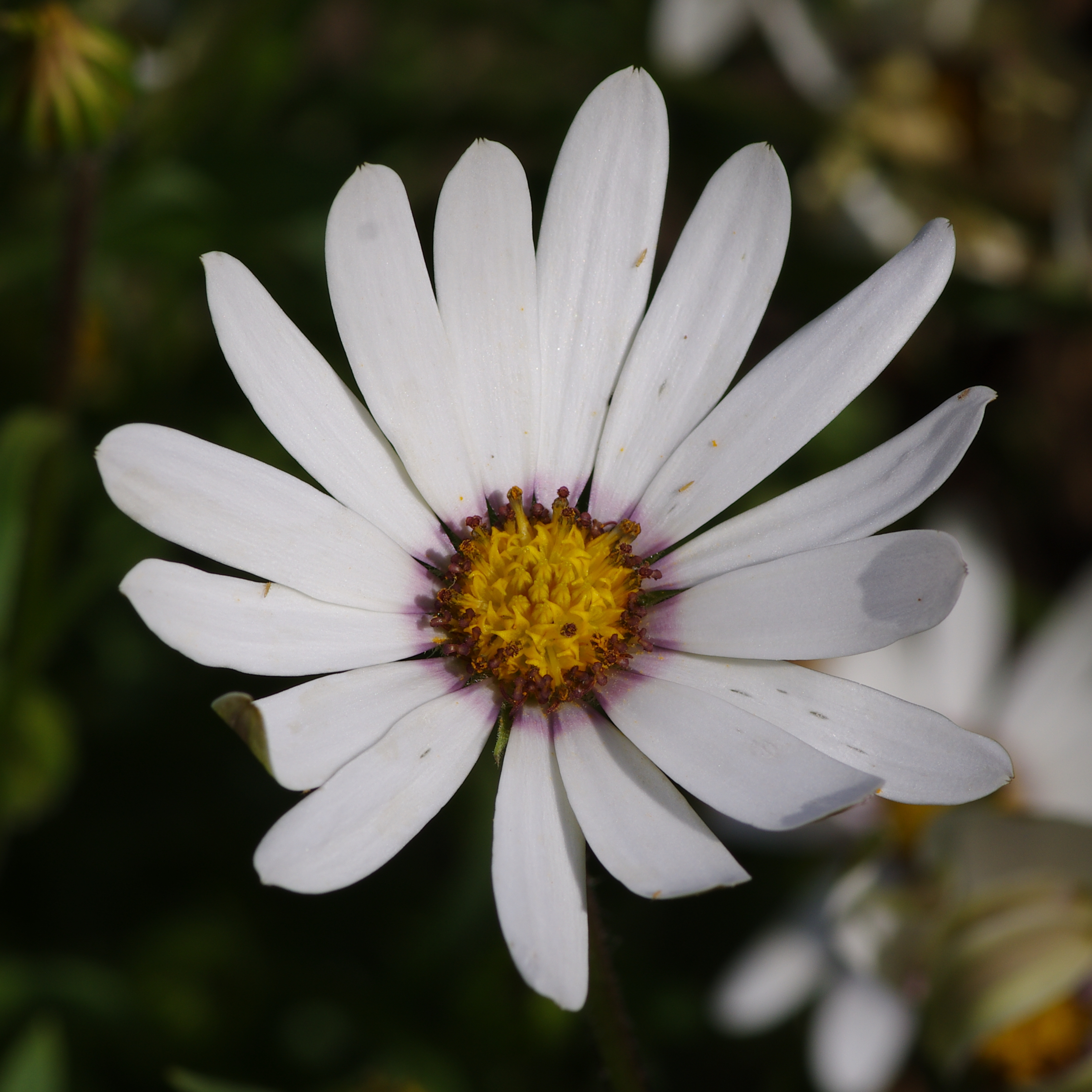 Dimorphotheca sinuata at the ÖBG Bayreuth